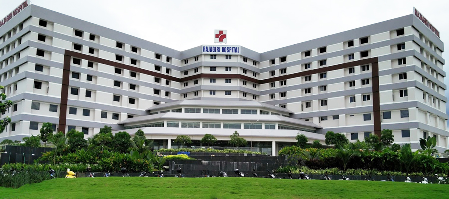 Front View of Rajagiri Hospital Cochin